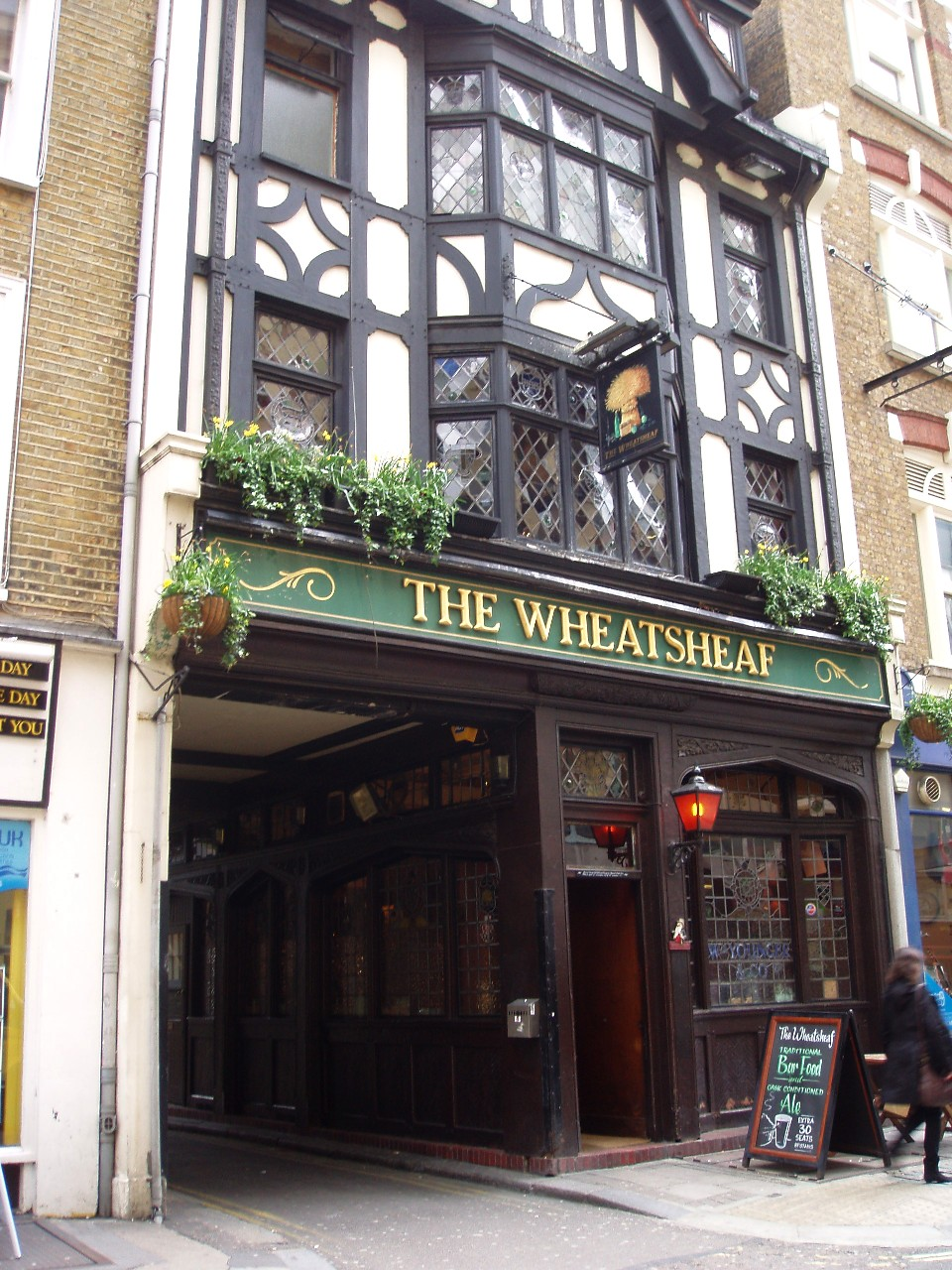 Pub off Oxford St, near the Royal Mail sorting office. Perfectly pleasant, pubby place. Address: 25 Rathbone Place. Owner: Enterprise Inns; Younger's (former). Links: Randomness Guide to London Fancyapint Beer in the Evening Qype Dead Pubs (history)